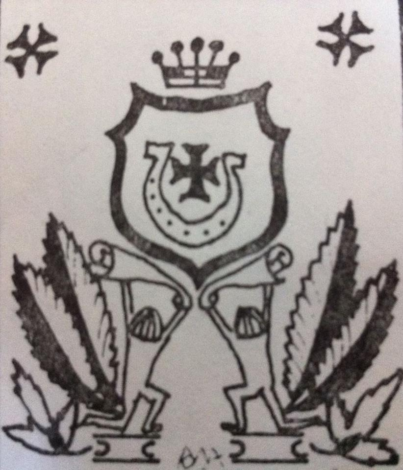 Jastrzębiec (herb szlachecki)